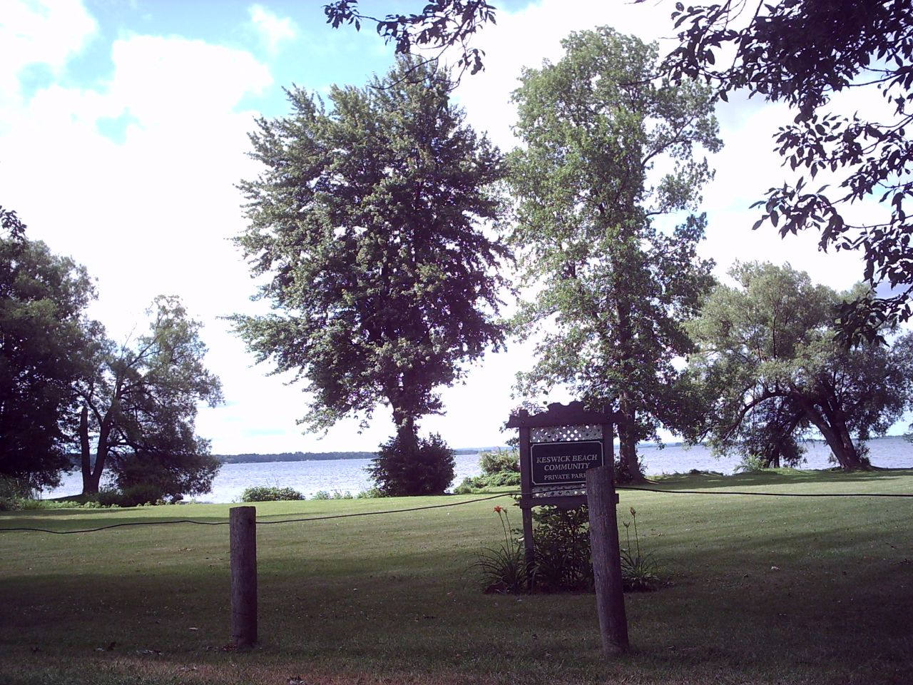 Photo of Keswick Beach, Keswick by Lauren Roberts, cc-by-sa